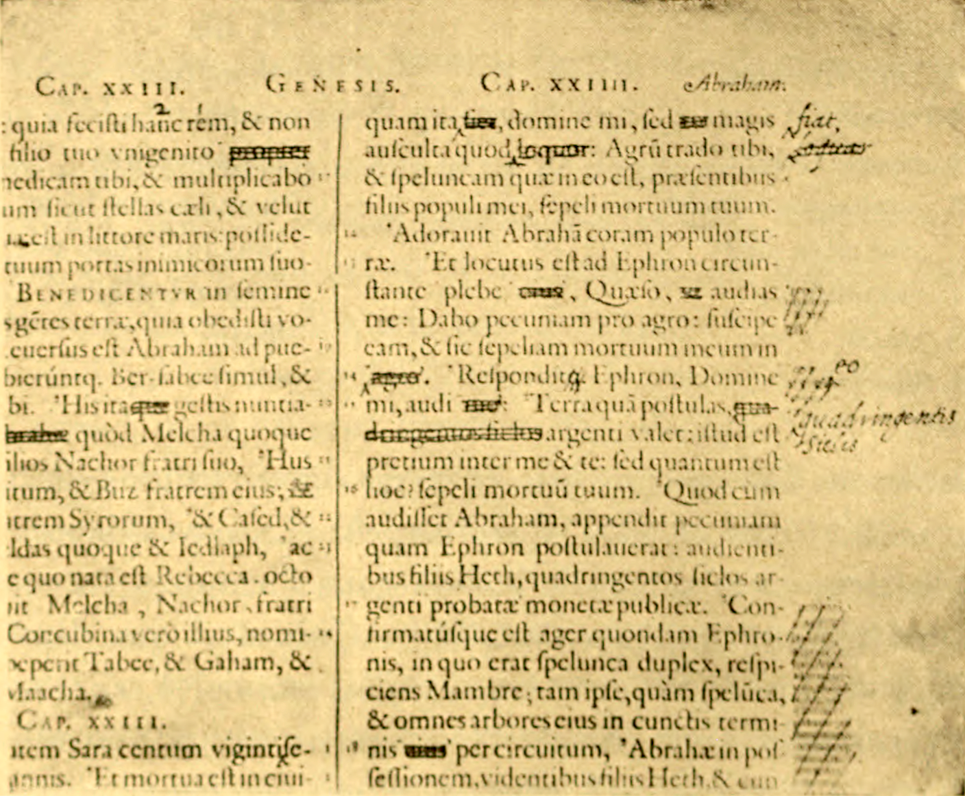 Image of the Codex Carafianus as found in Quentin's book (raw JP2 version cropped). It is a 1583 edition of the Leuven Vulgate (Genesis ch. 23-24) corrected by the commission established by Sixtus V under the presidency of cardinal Carafa. Quentin writes that the original printed readings and notes in the margins of the Leuven Vulgate have been strikethrough. See the unmodified 1583 Leuven Vulgate page here.